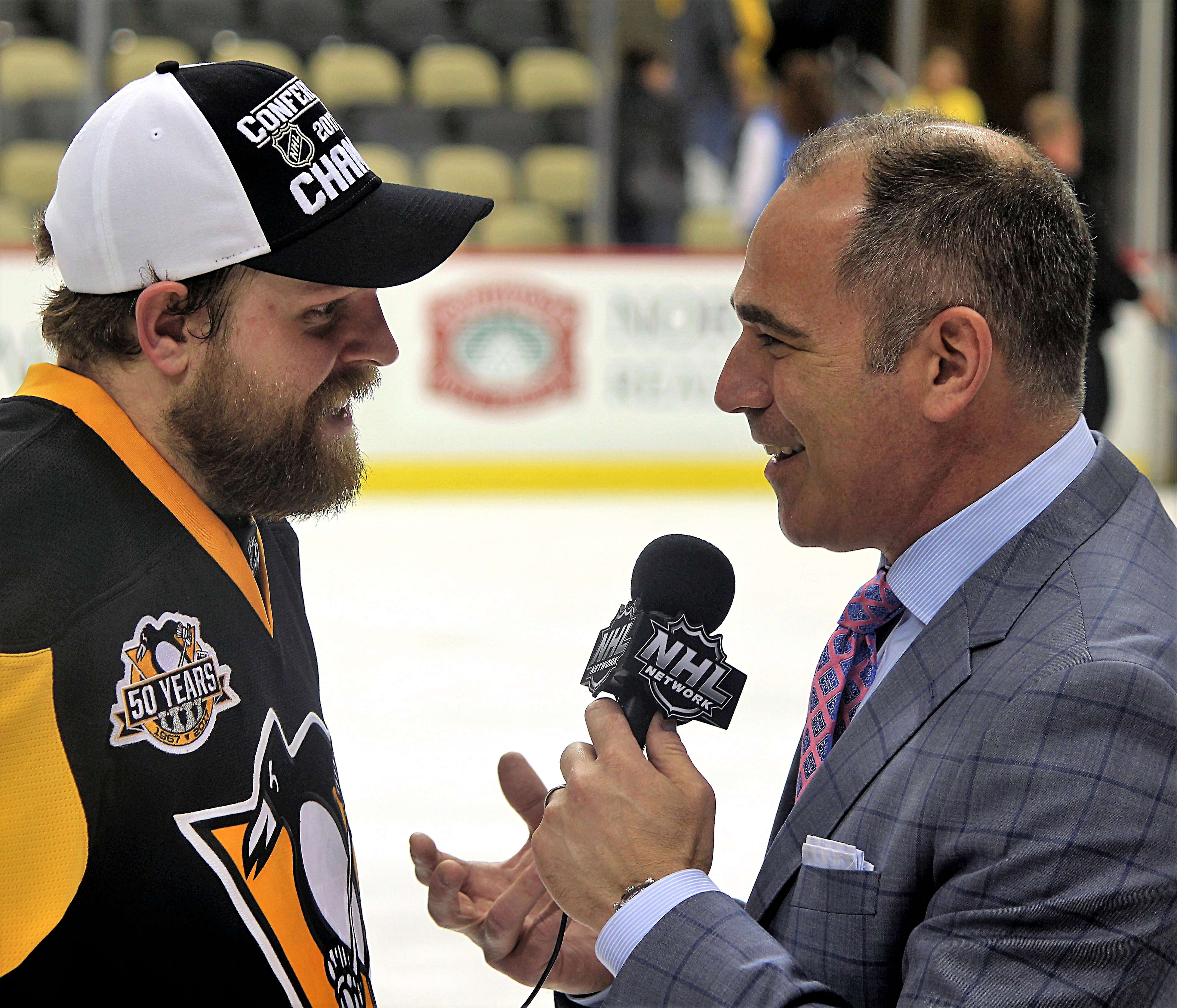 NHL Network reporter Billy Jaffe interviews Phil Kessel following the Pittsburgh Penguins double-overtime victory in game 7 against the Ottawa Senators in the 2017 Eastern Conference Final, May 25, 2017, at PPG Paints Arena in Pittsburgh, PA.